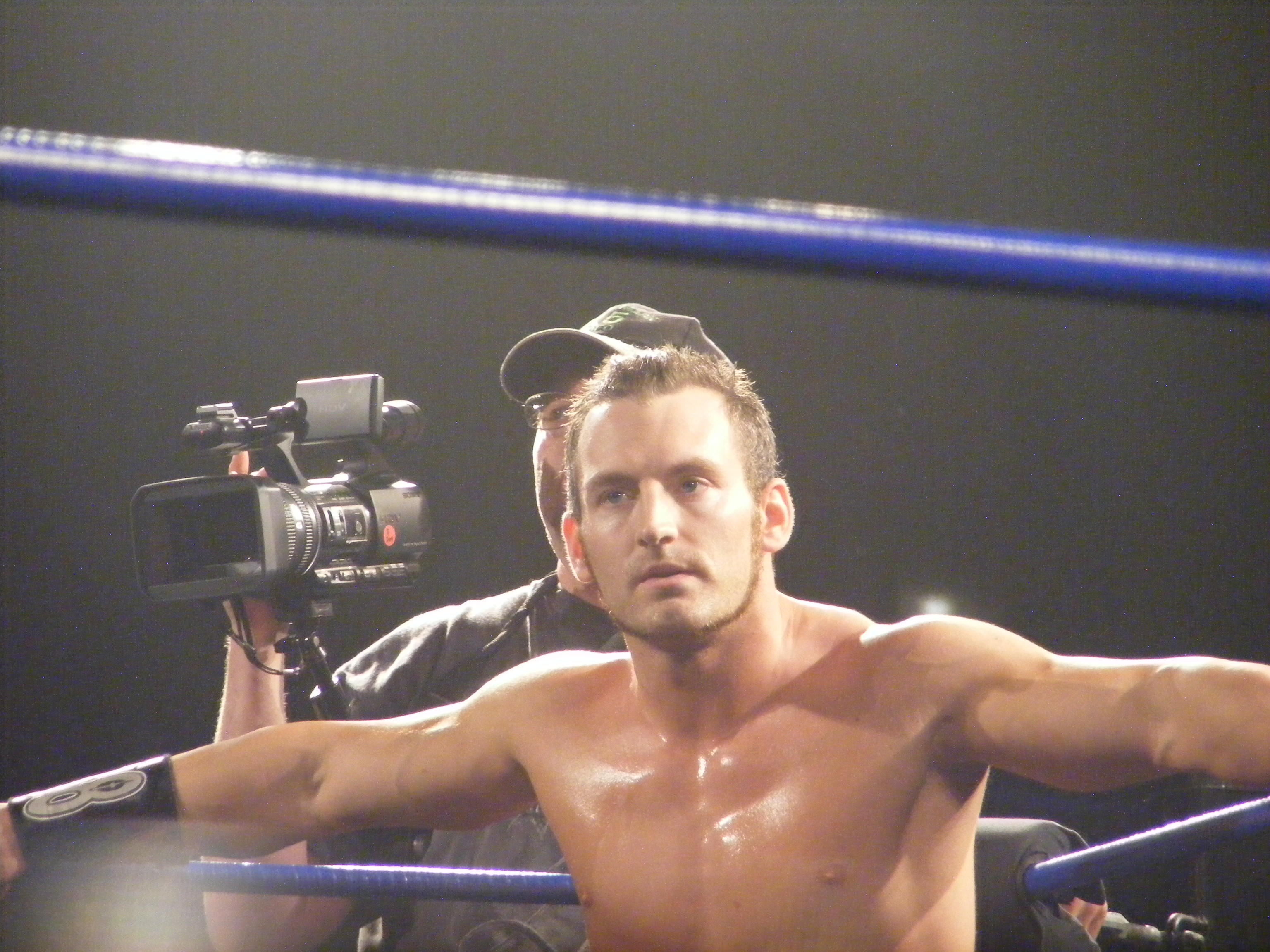 Matt Capiccioni at Chikara's King of Trios 2010 tournament on April 24, 2010.